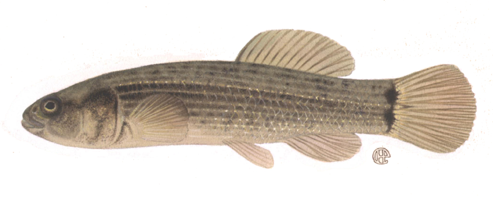 Eastern mudminnow (Umbra pygmaea)